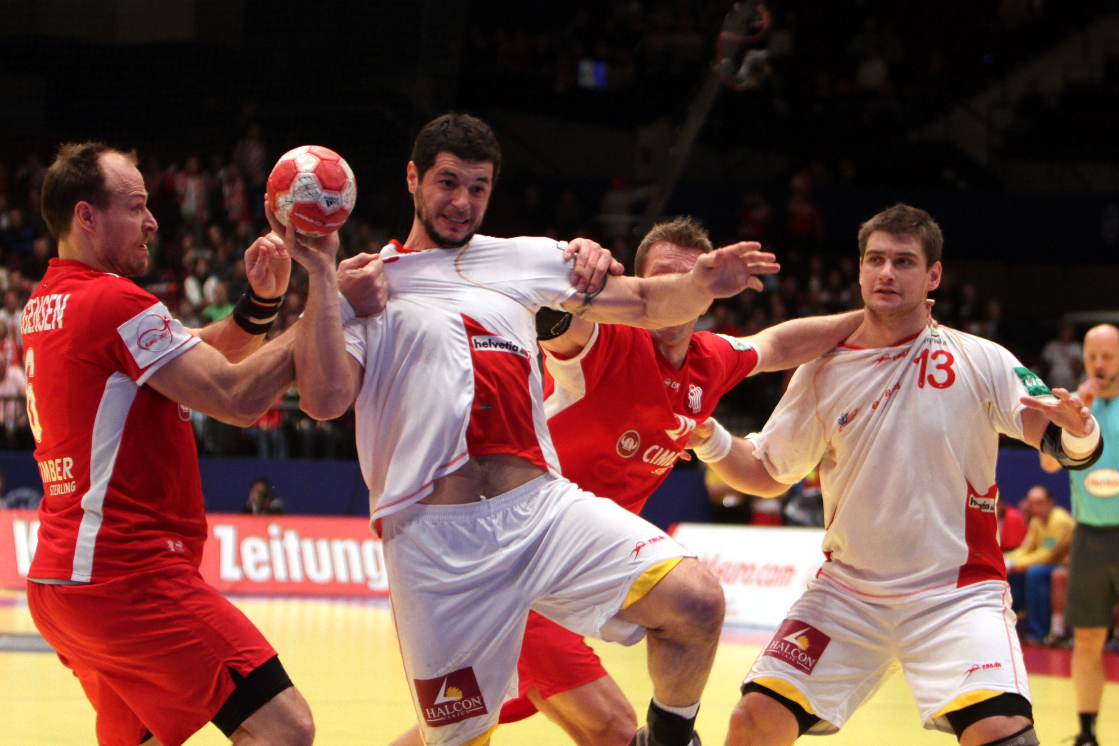 2010 European Men's Handball Championship Final Place 5: Denmark vs Spain 34:27 — Spains Alberto Entrerríos is held back by the Danes Lars Jørgensen (left) and Kasper Nielsen. On the right side Julen Aguinagalde.